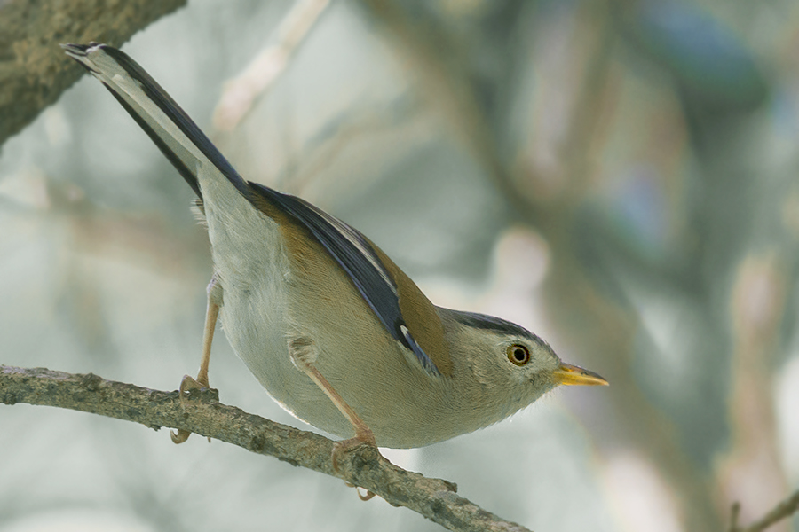 The specie Blue-winged Minla had been photographed from Nalni, Uttarakhand, India on 30.11.2014. during the bird photography tour of GoingWild.